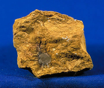 Limonite. This is image from English Wikipedia, uploaded by Chris 73.